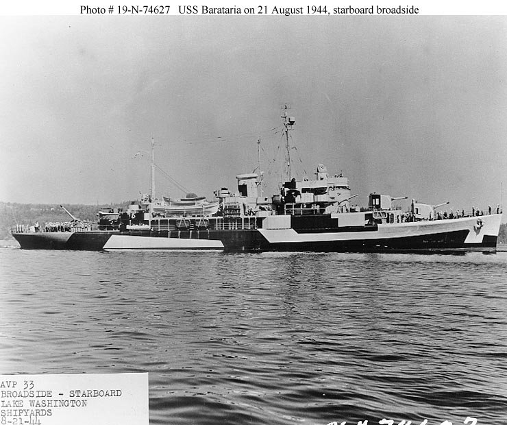 United States Navy seaplane tender USS Barataria (AVP-33) off Houghton, Washington on 21 August 1944